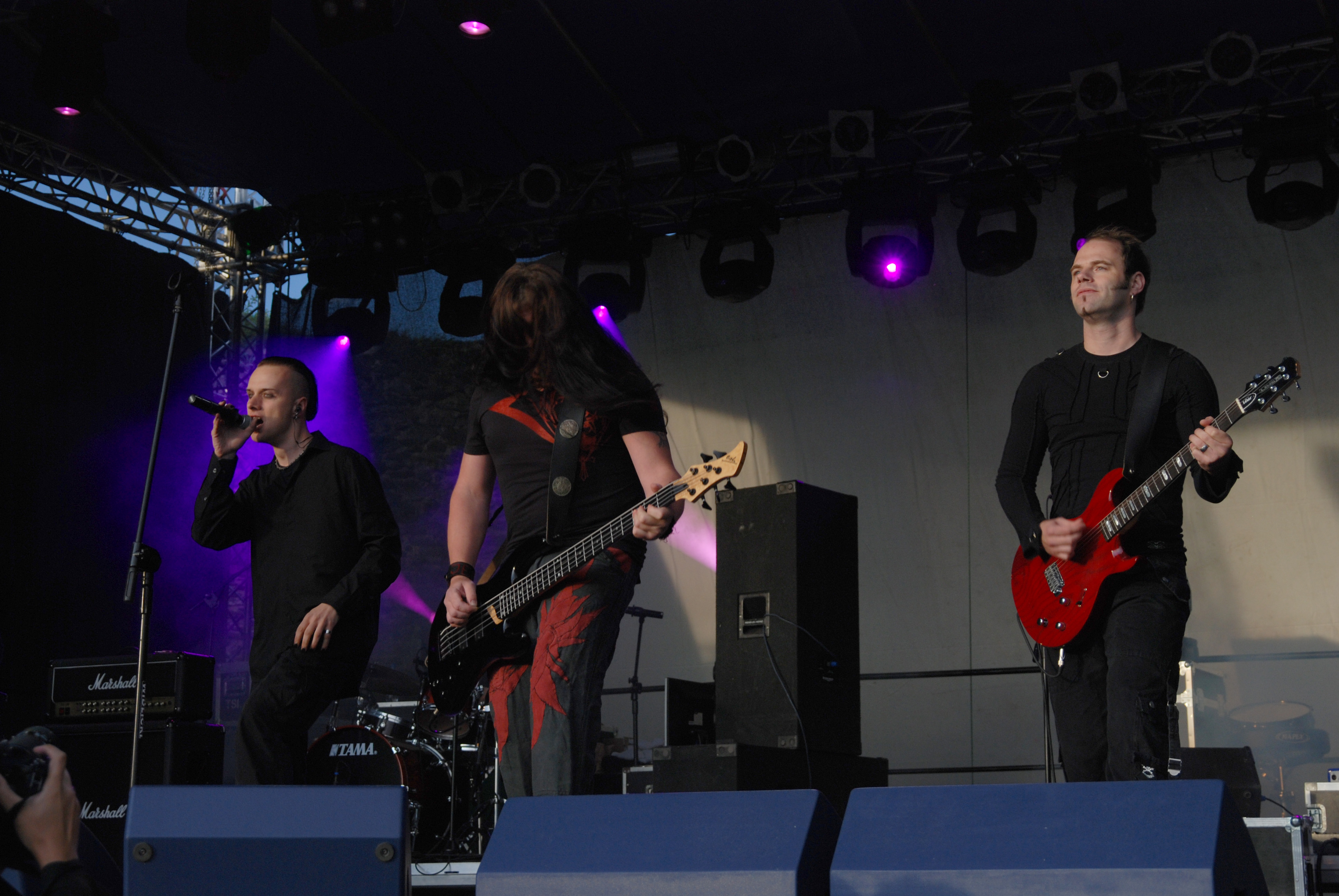 This photo was made in cooperation with CASTLE PARTY PRODUCTIONS in Bolków (webpage)